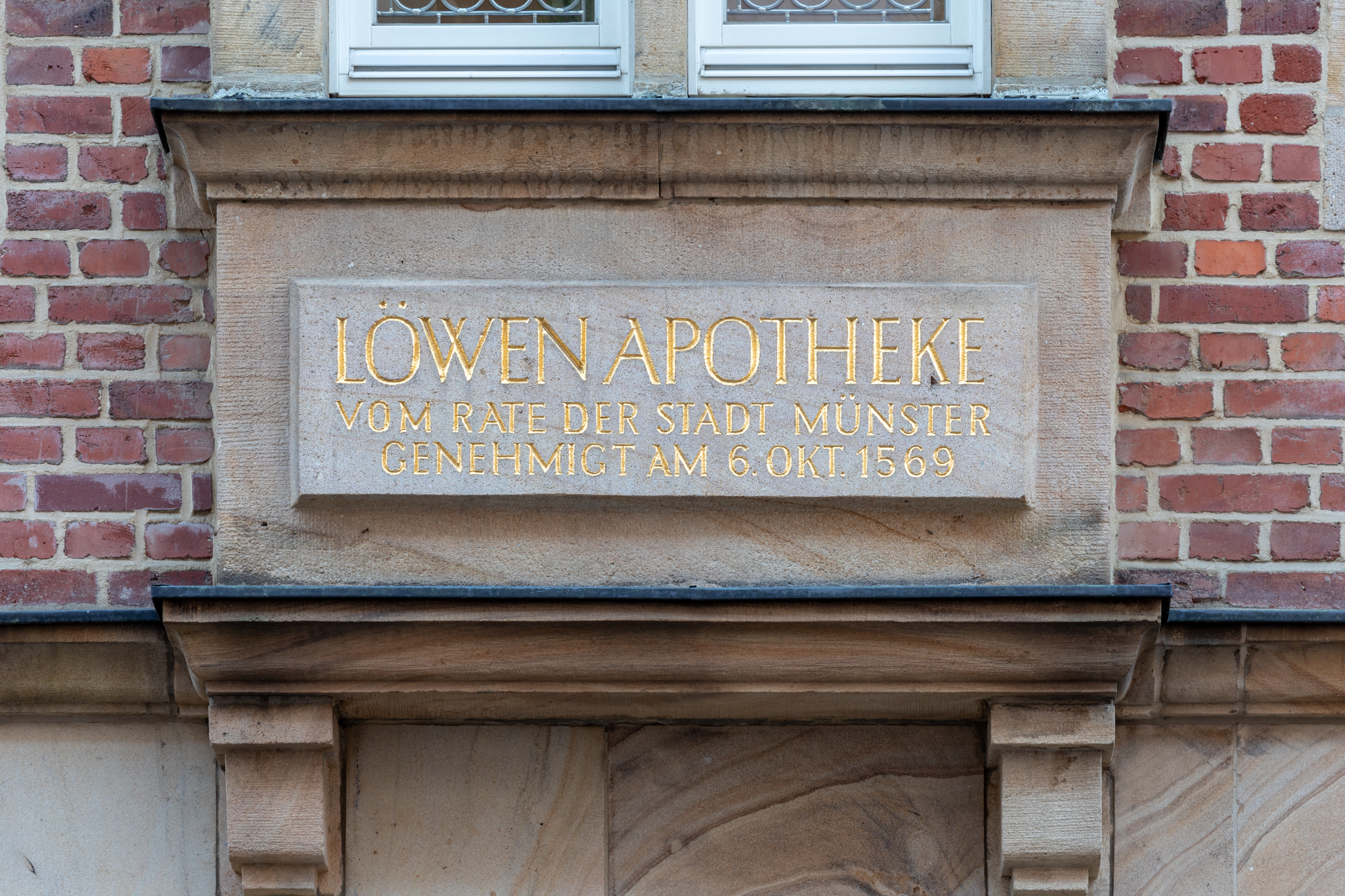 “Löwen-Apotheke” at Rothenburg in Münster, North Rhine-Westphalia, Germany